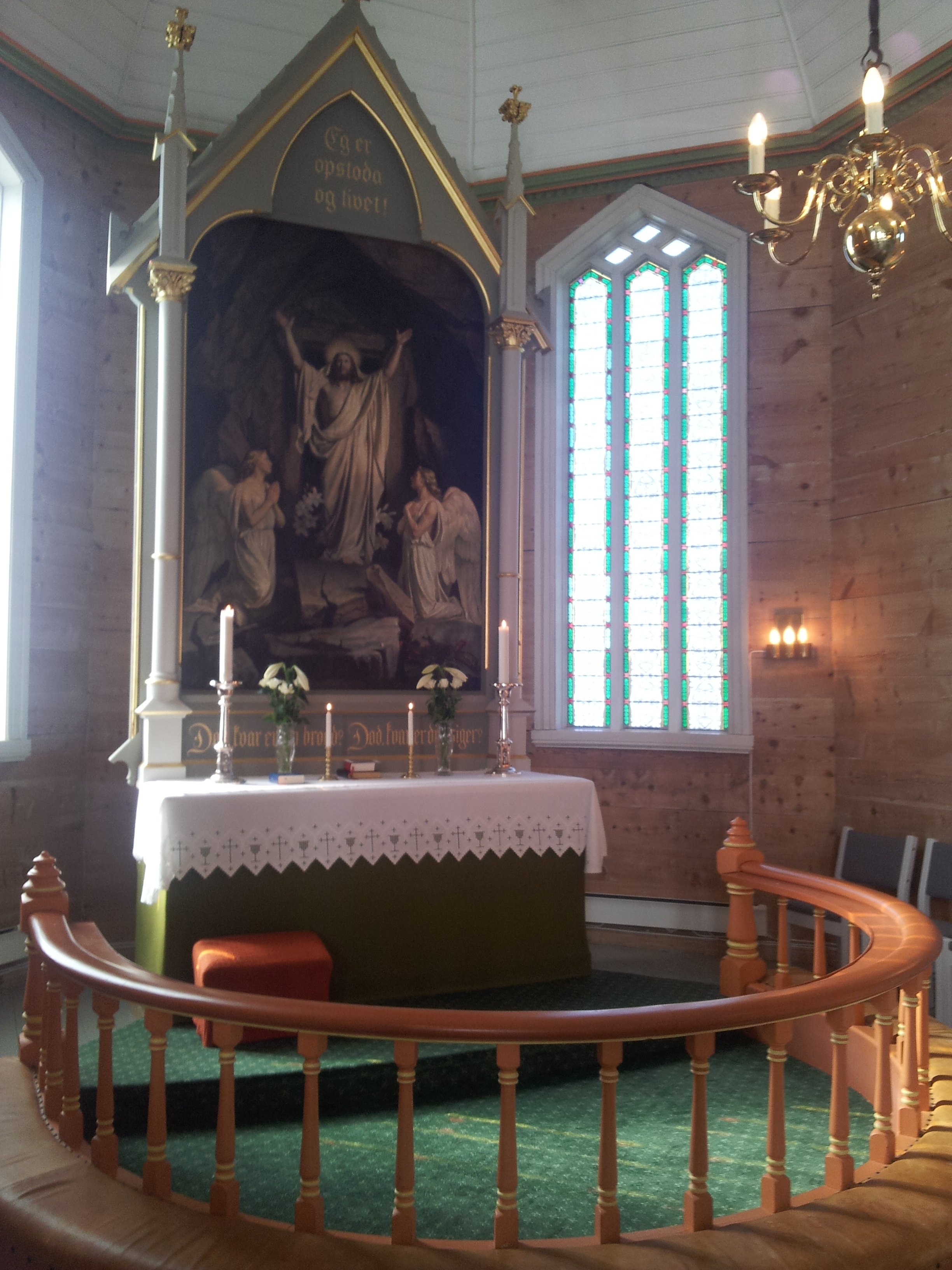 Altar area in Sæbø church, Radøy, Norway